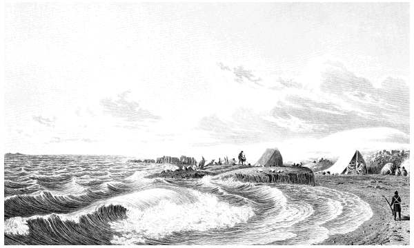 John Franklin's party encamped at Point Turnagain doring the Coppermine River expedition of 1819-1922.